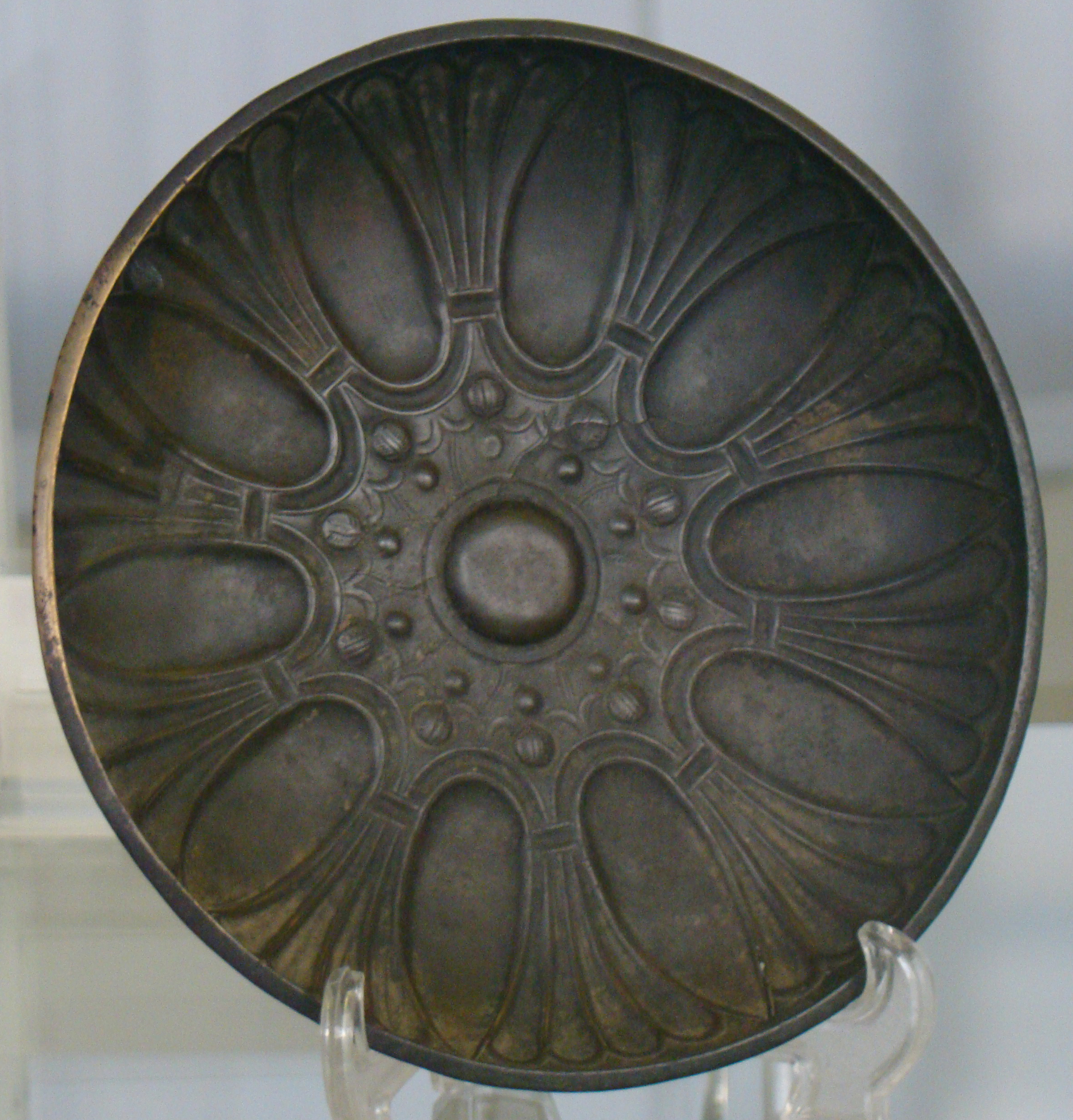 An Iranian Plate (The first millennium BC)